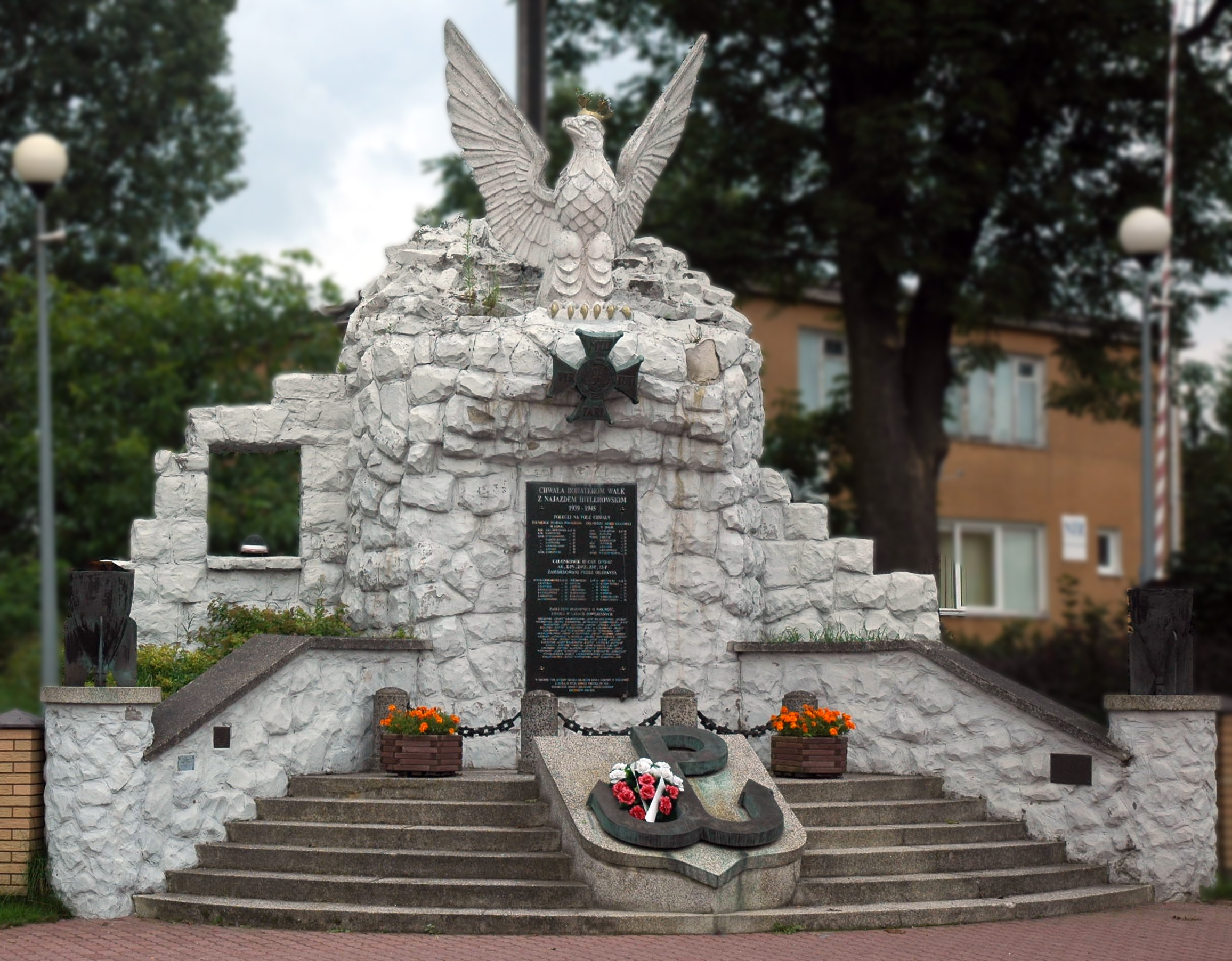 Monument of the White Eagle in memory killed and murdered in 1939-1945 at site III in Company AK Chotomów